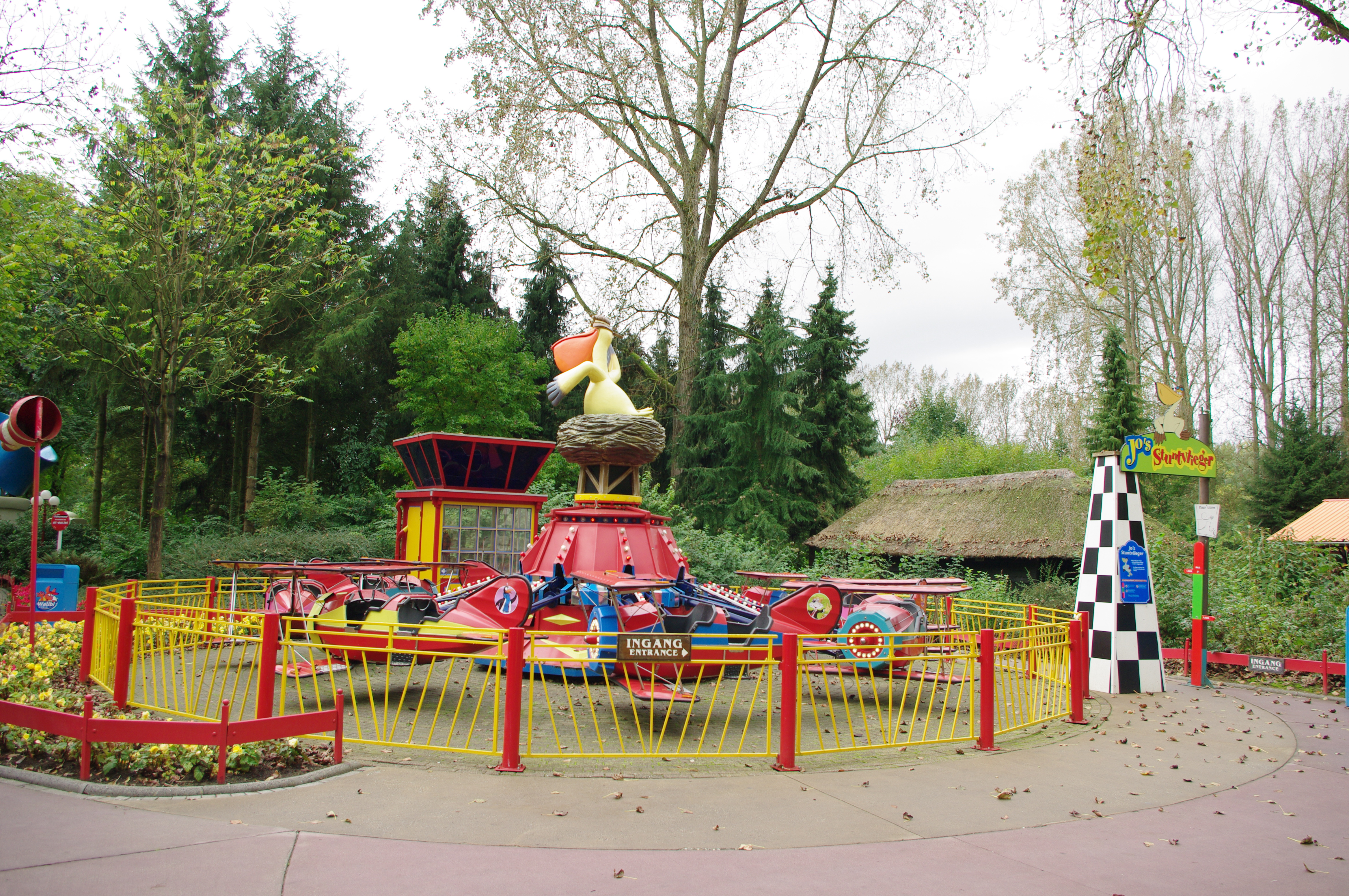 Jo's Stuntvlieger in the Dutch themepark Walibi World.